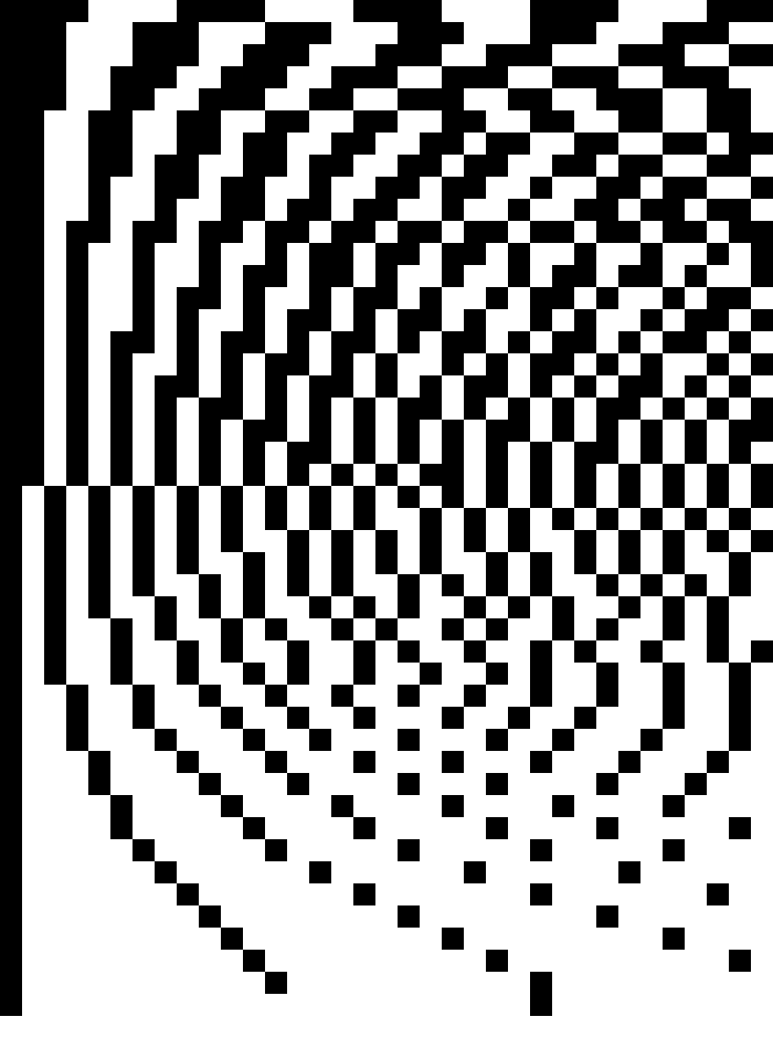 An exposure timing sheet for Tony Conrad's The Flicker. Joseph, Branden W. (2008) Beyond the Dream Syndicate: Tony Conrad and the Arts After Cage 978-1-890951-86-3, Zone Books, p. 293